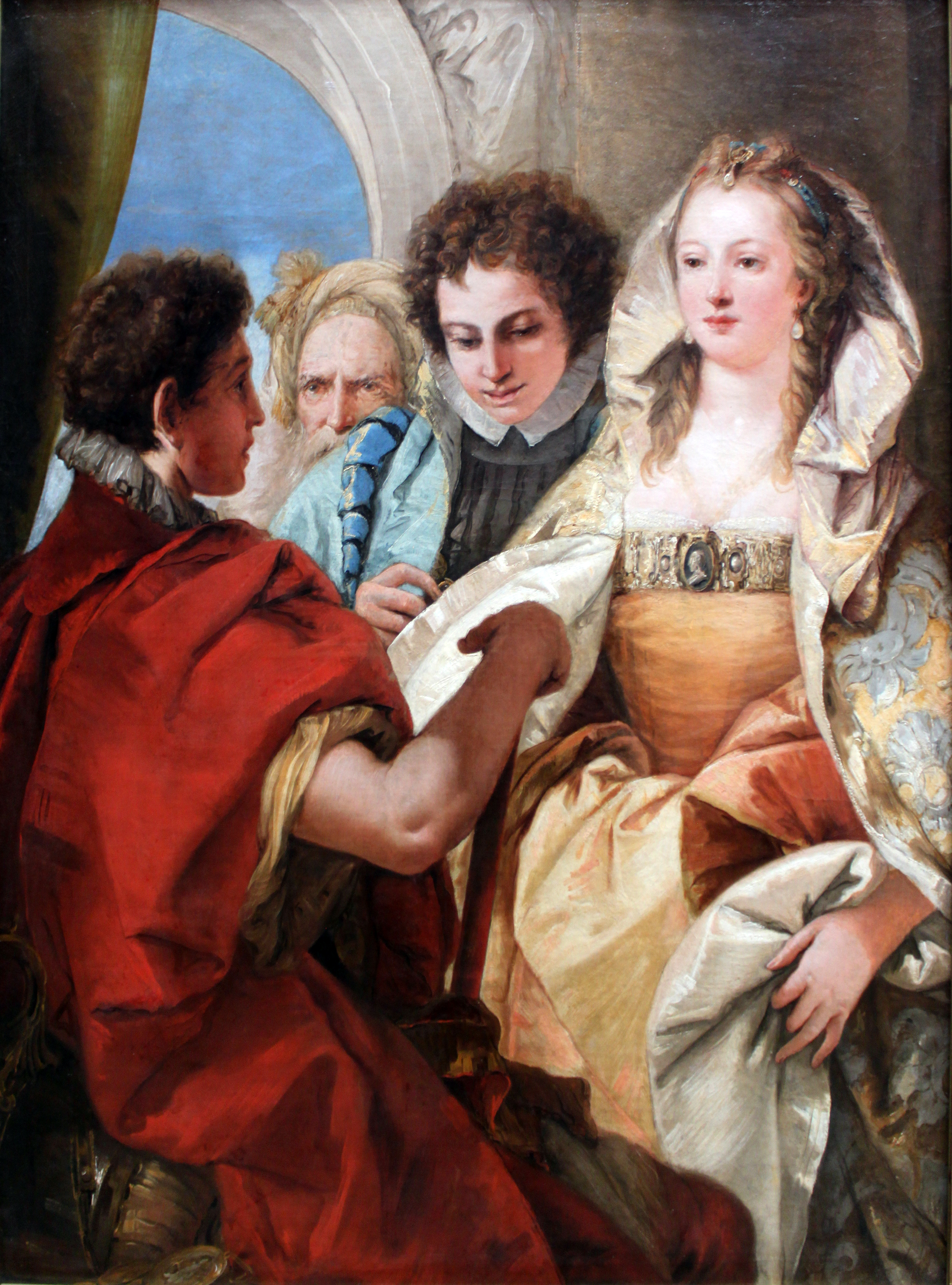 The Continence of Scipio